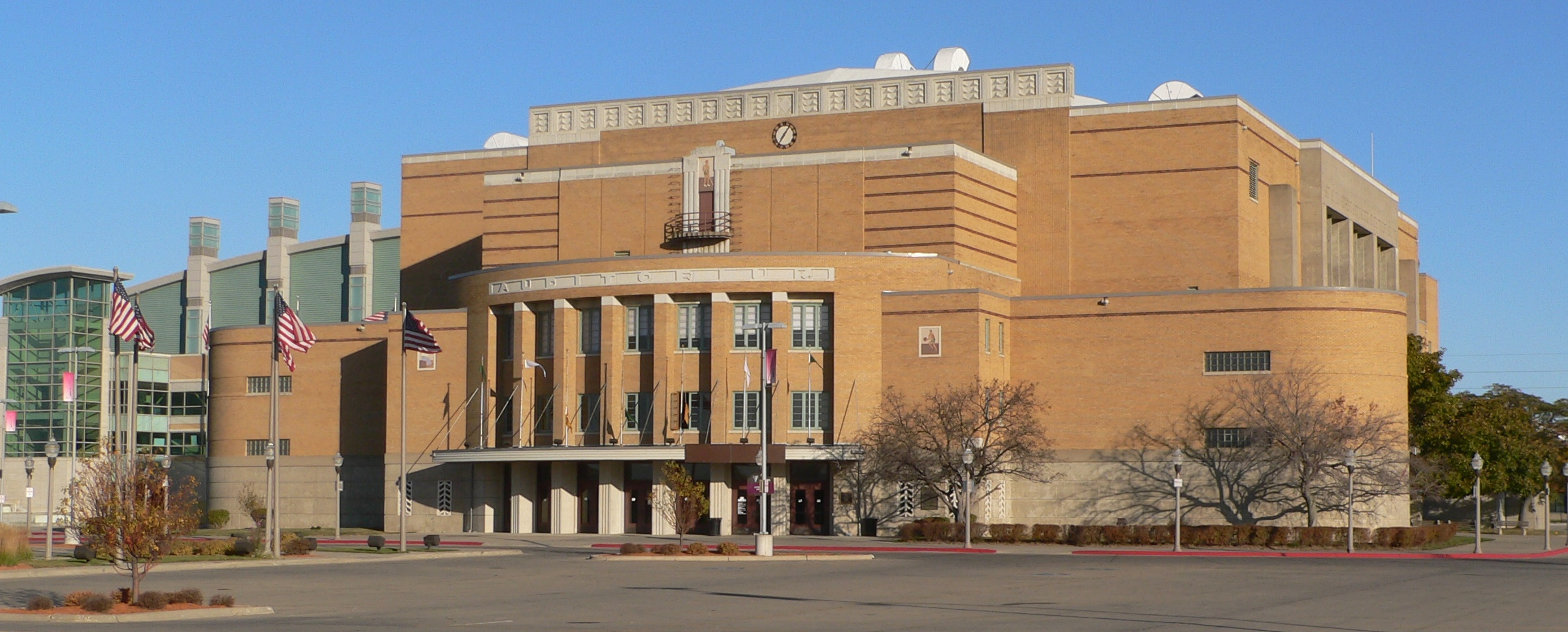 Sioux City Municipal Auditorium, now part of the Tyson Events Center, in Sioux City, Iowa; seen from the southeast.